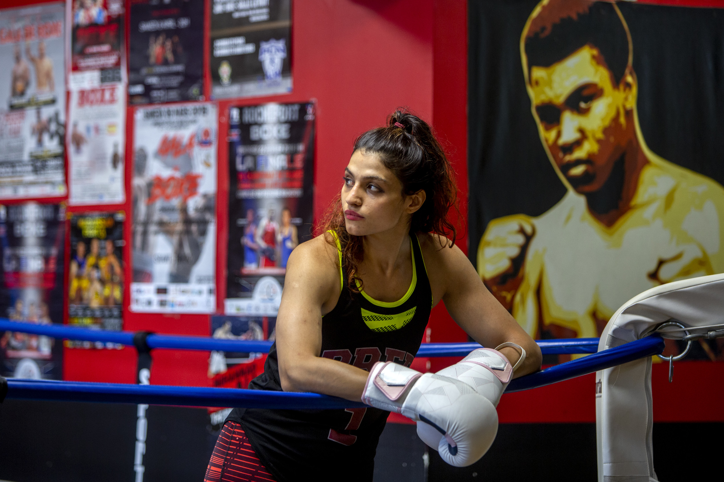 Sadaf Khadem, female boxer from Iran. Date work and License: See below.